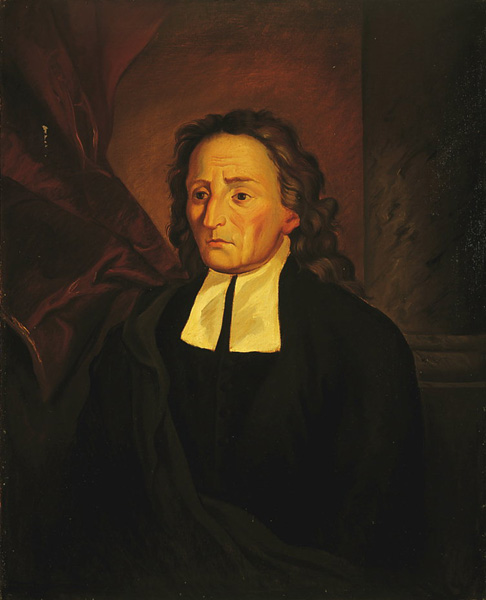 Portrait of Giovan Battista - or Giambattista - Vico (1668-1744), italian philosopher, historian and jurist. Oil on canvas.